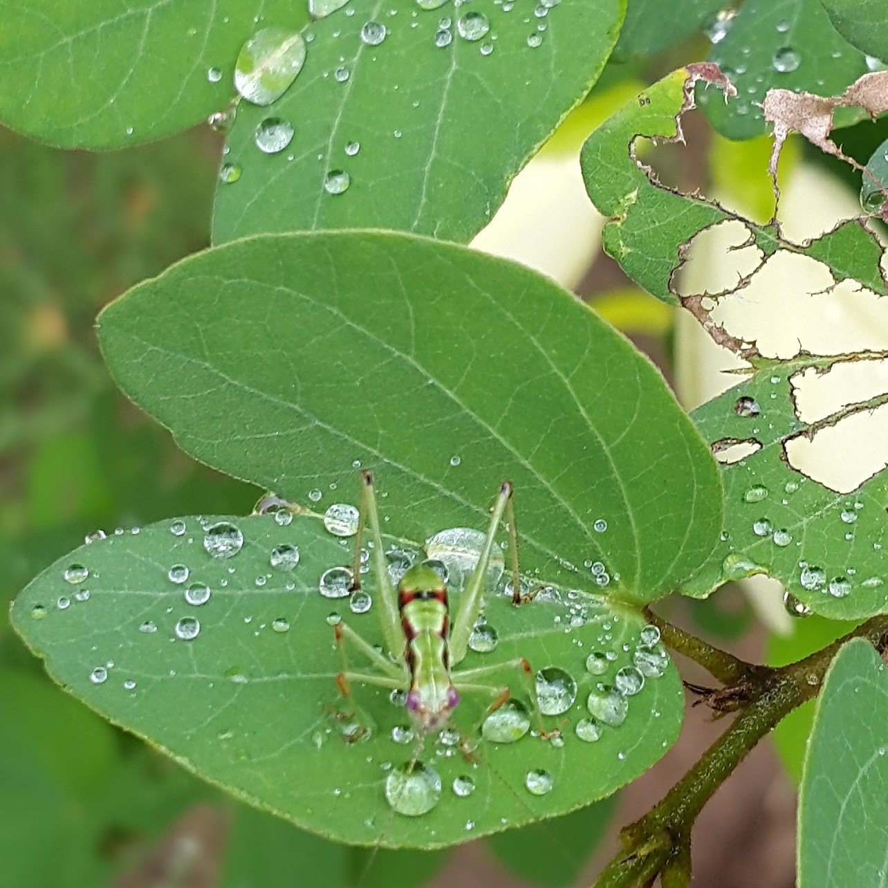 tasting the dews